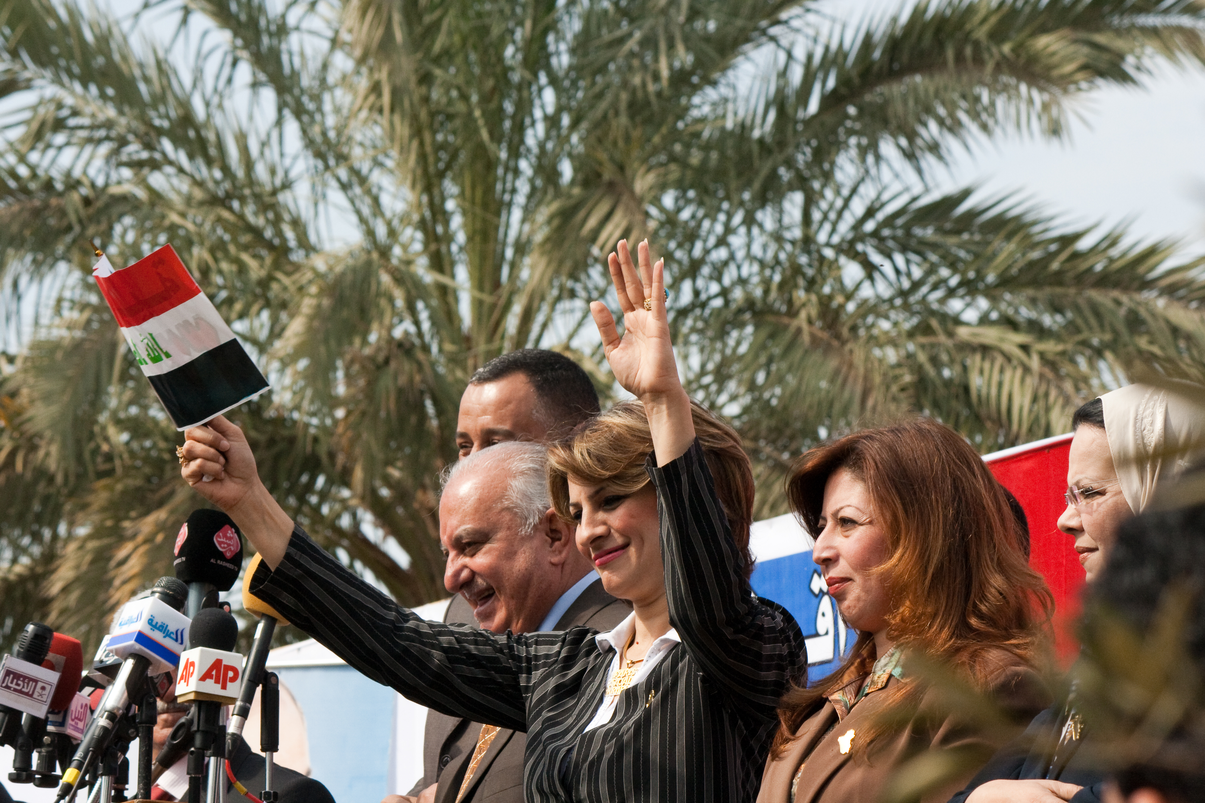 Election campaign of the Iraqiya Coalition